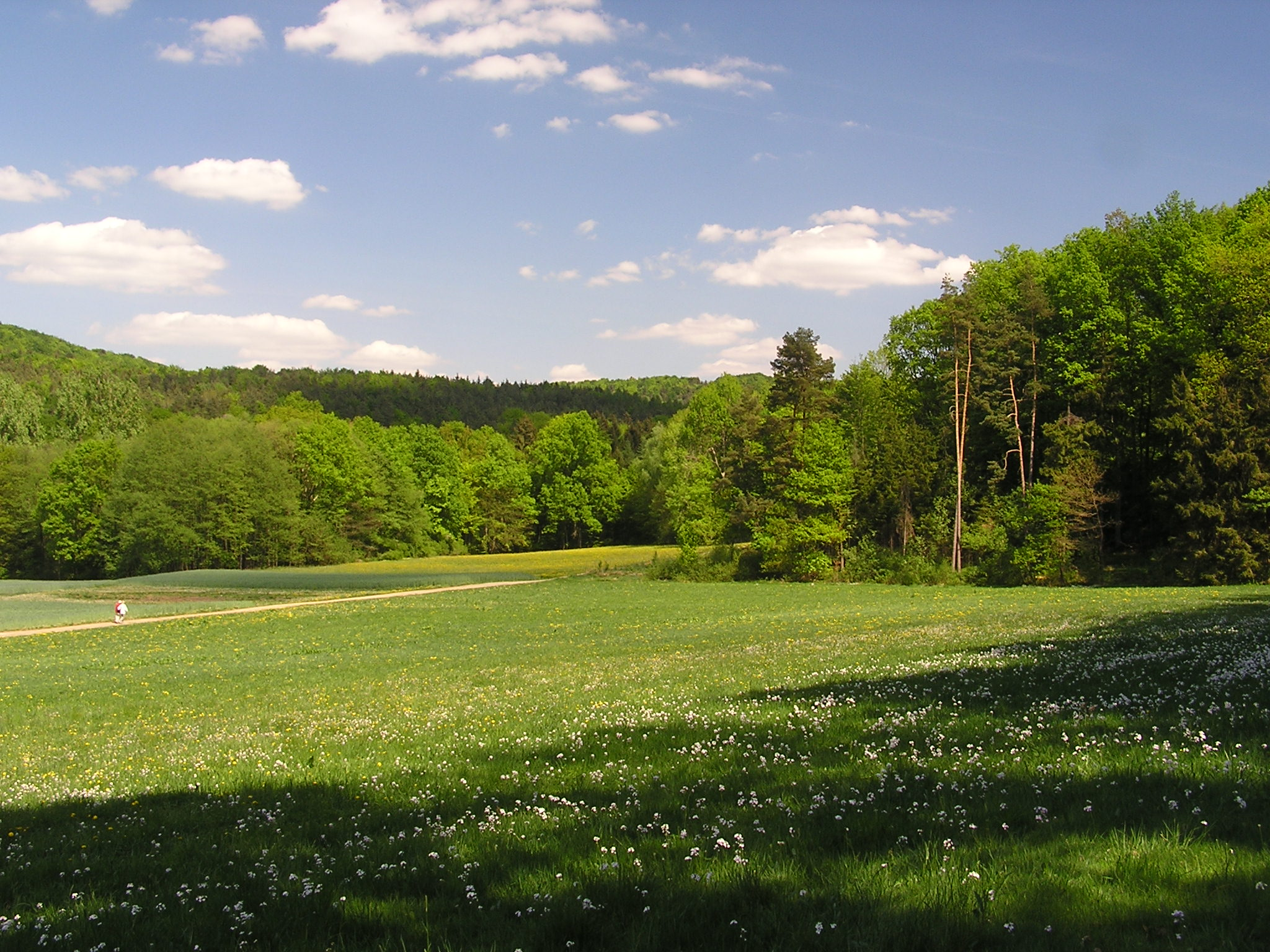 Franconian landscape near the village of Hagenhausen, a section of the town of Altdorf.